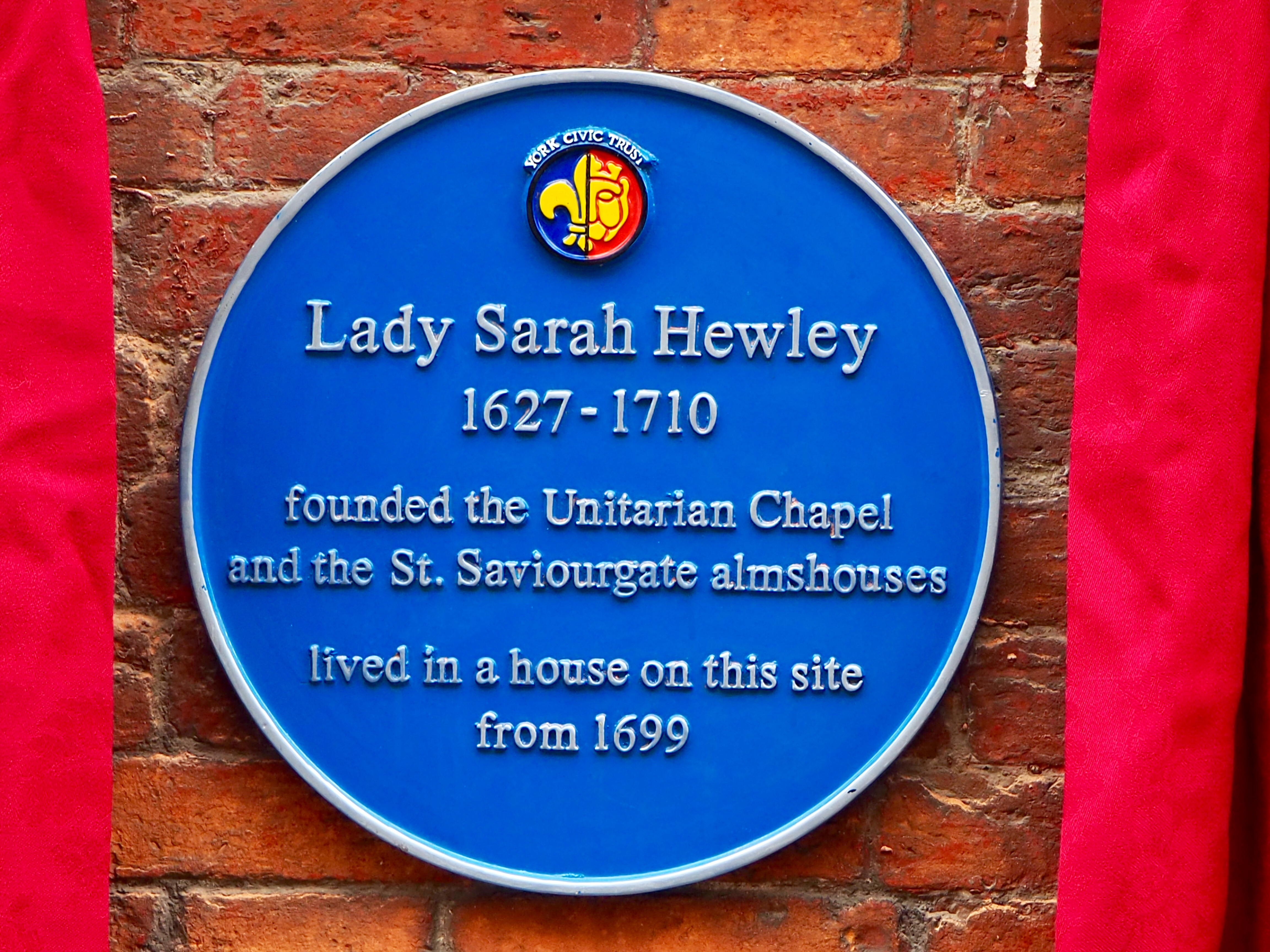 Dame Sarah Hewley 1627-1710 founded the Unitarian Chapel and the St. Saviourgate almshouses lived in a house on this site from 1699